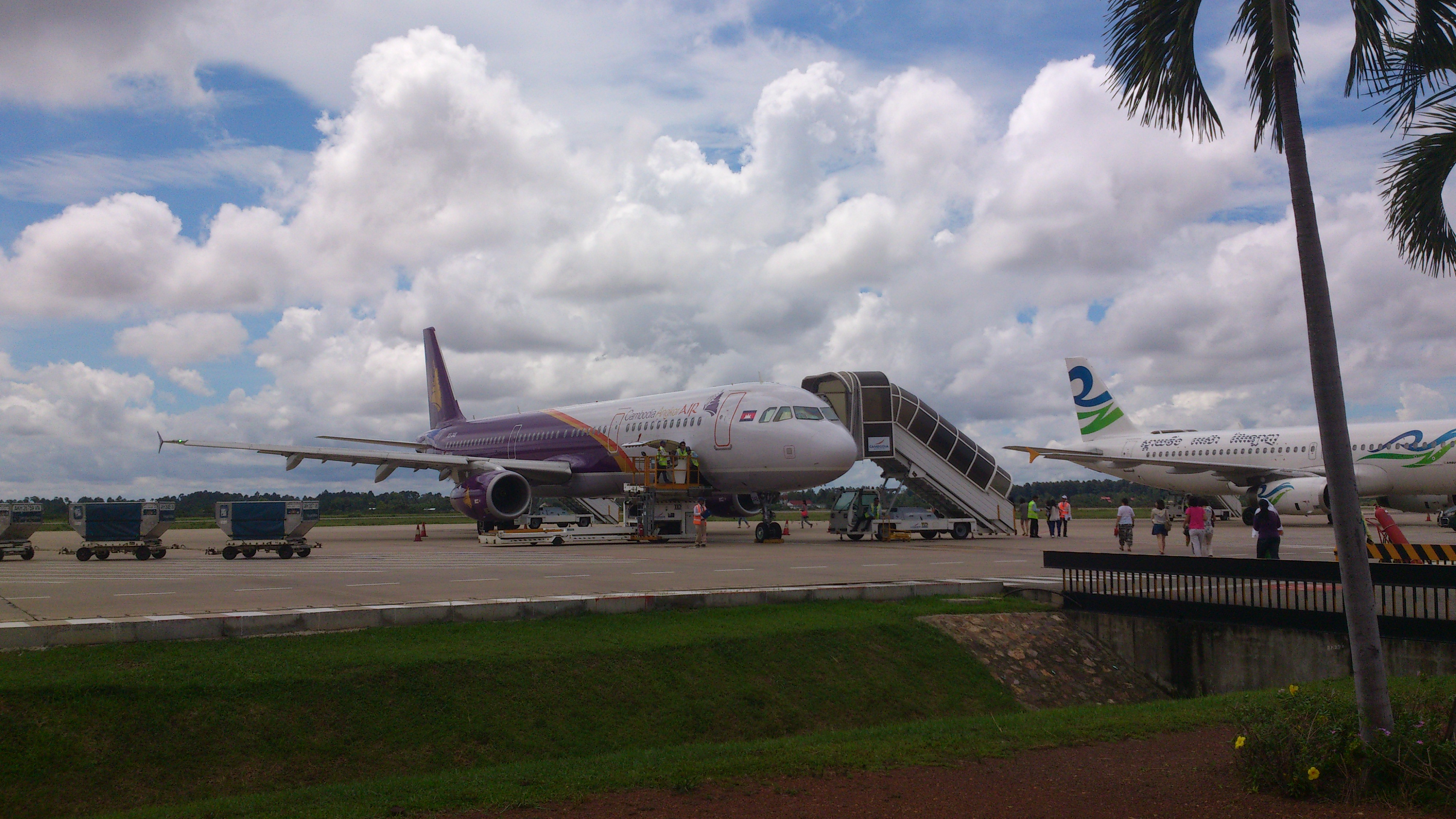 Cambodia Angkor Air AIRBUS A321 IN VDSR AIRPORT。